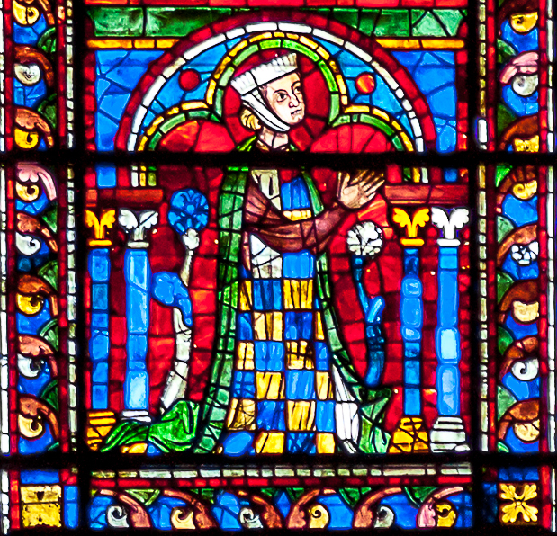 Chartres Cathedral, South Window (Bay 122), Detail